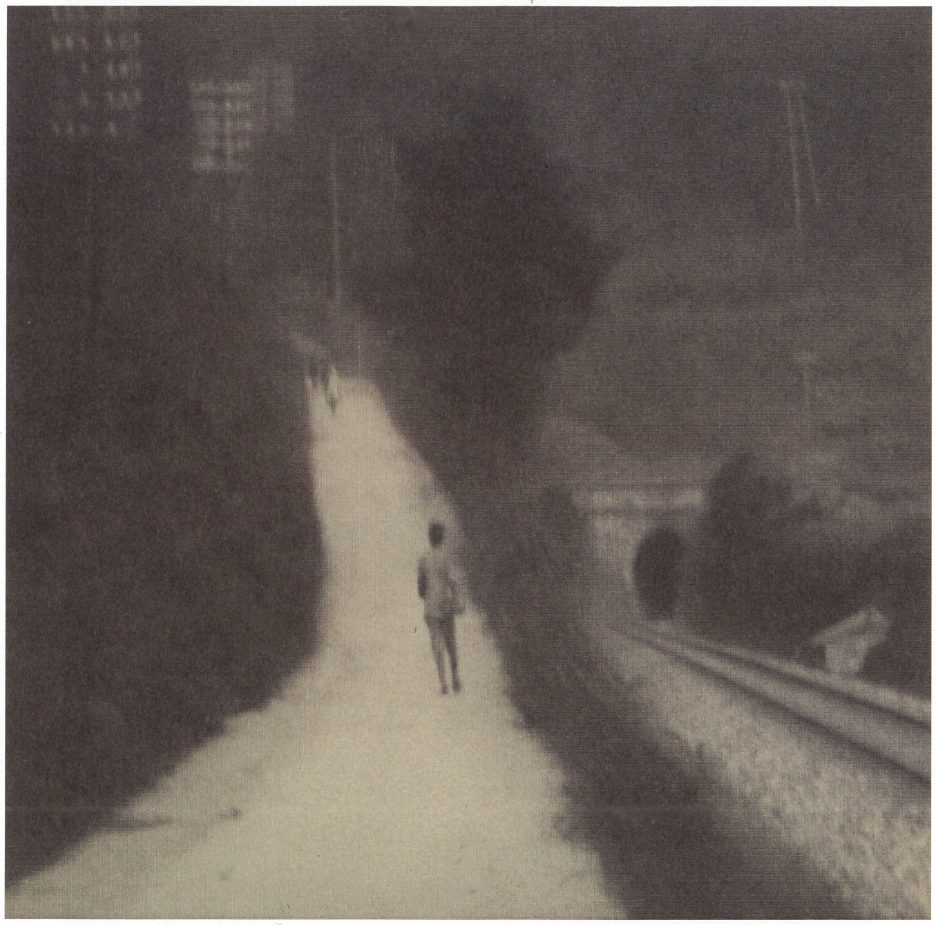 Photograph taken in 1930 by Teikō Shiotani (鹽谷定好, 1899–1988). Shiotani compressed the image horizontally by bending the paper under the enlarger. Original title: トンネルのある風景 (Tonneru no aru fūkei); a title that has since been used consistently for this. In English, it has been titled "View with a tunnel".